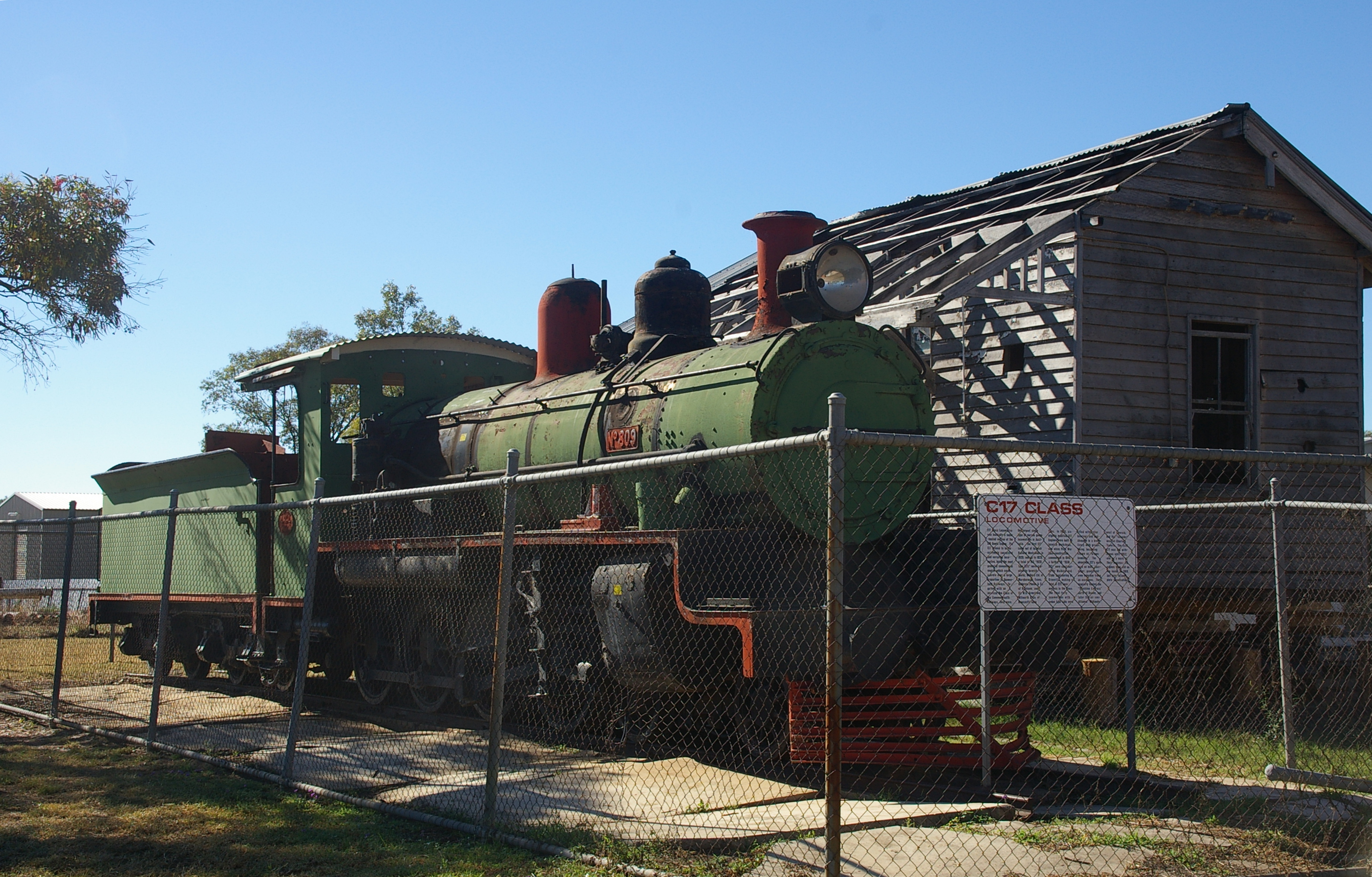 C17 class locomotive at Injune railway line, Queensland, Australia